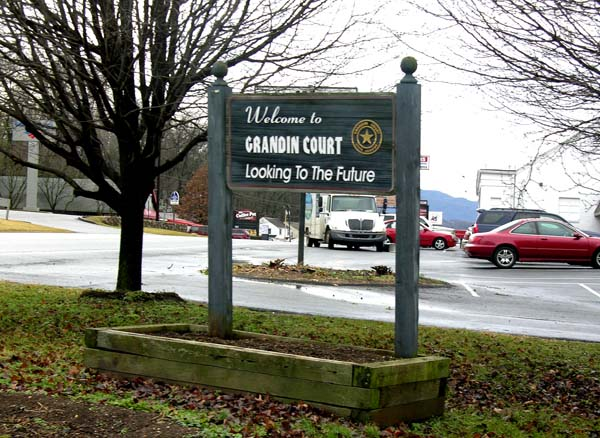 Welcome to Grandin Court signage on Brambleton Avenue (U.S. Route 221) in Roanoke, Virginia, USA.